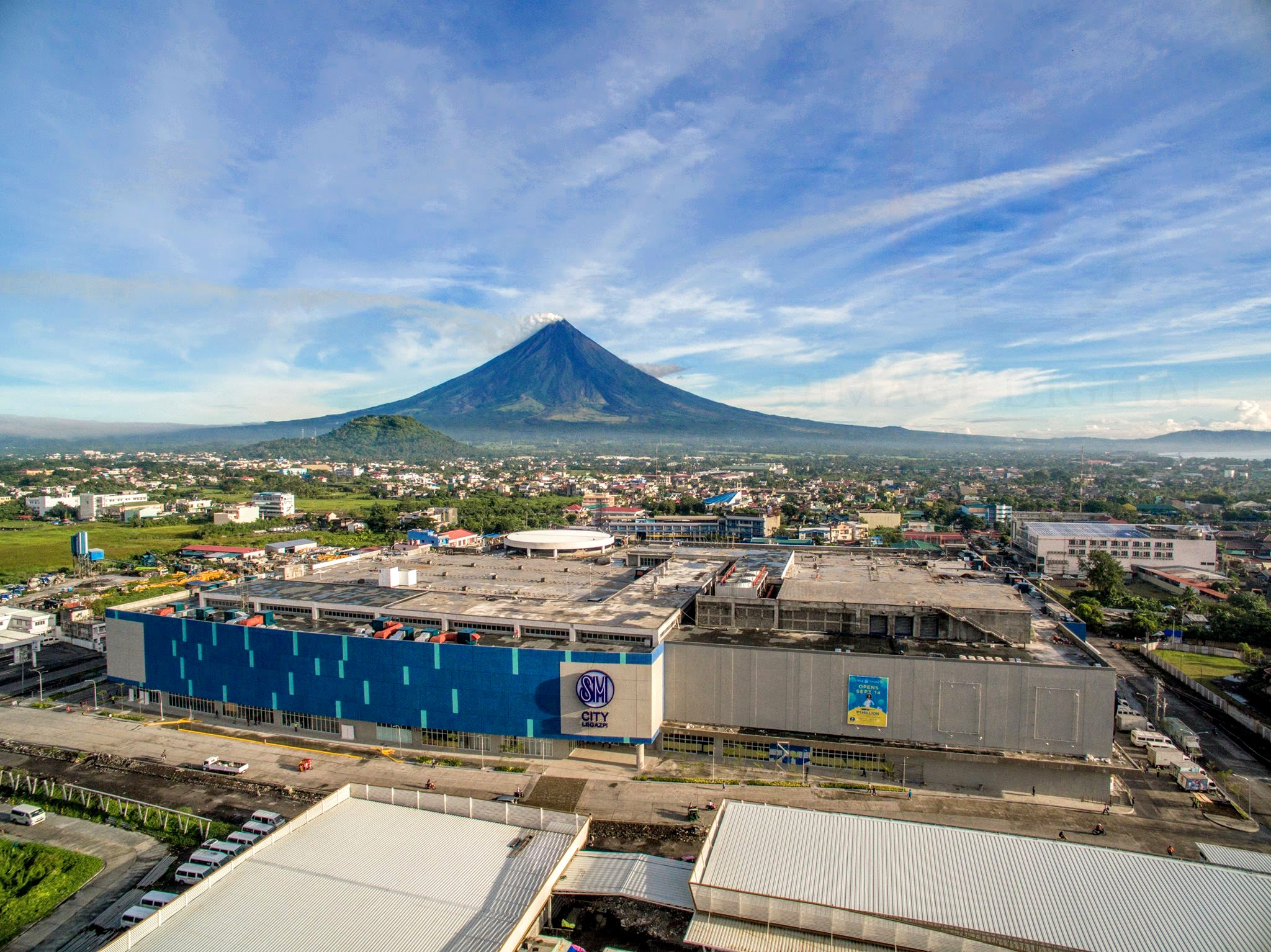 Aerial photo of SM City Legazpi as of Sept. 1, 2018